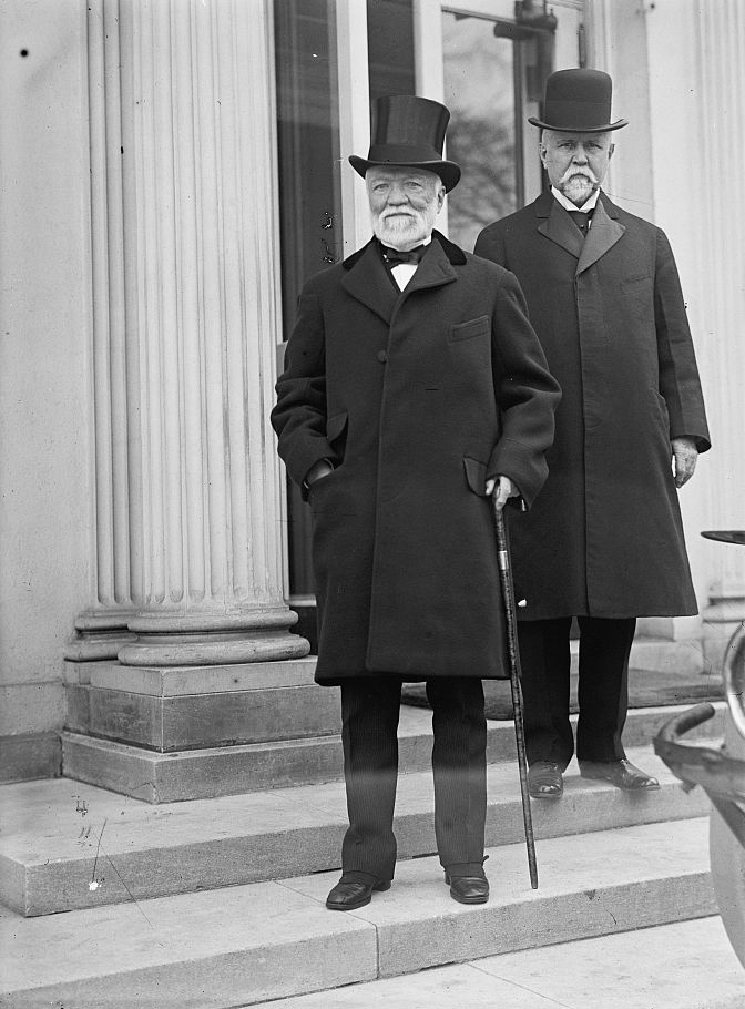 Photograph of banker Theodore Gilman with financier Andrew Carnegie. Courtesy of the Prints and Photographs Division, Library of Congress, Washington, D. C.